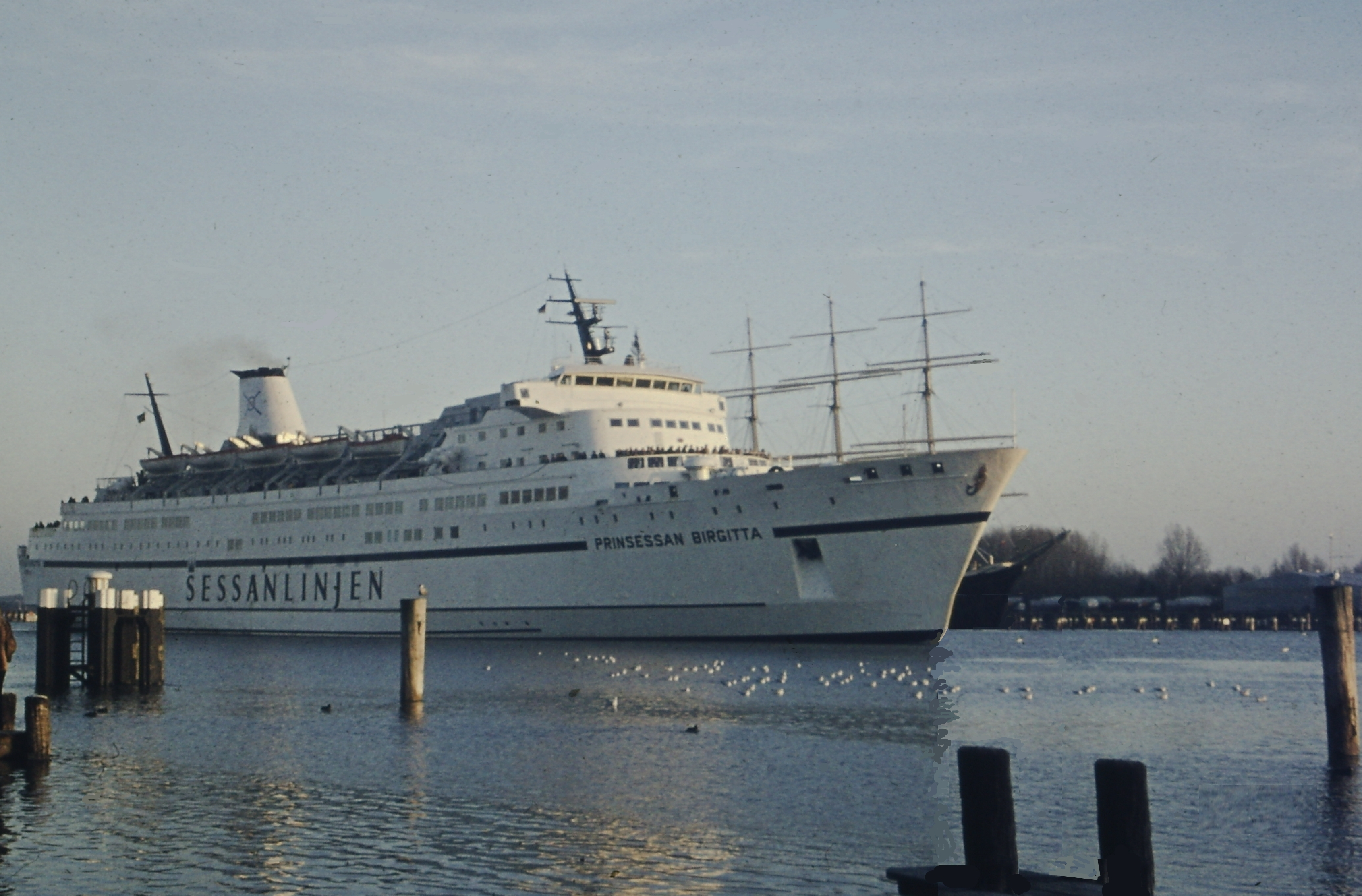 The swedish ferry Prinsessan Birgitta at the river Trave arriving Travemünde - 1983